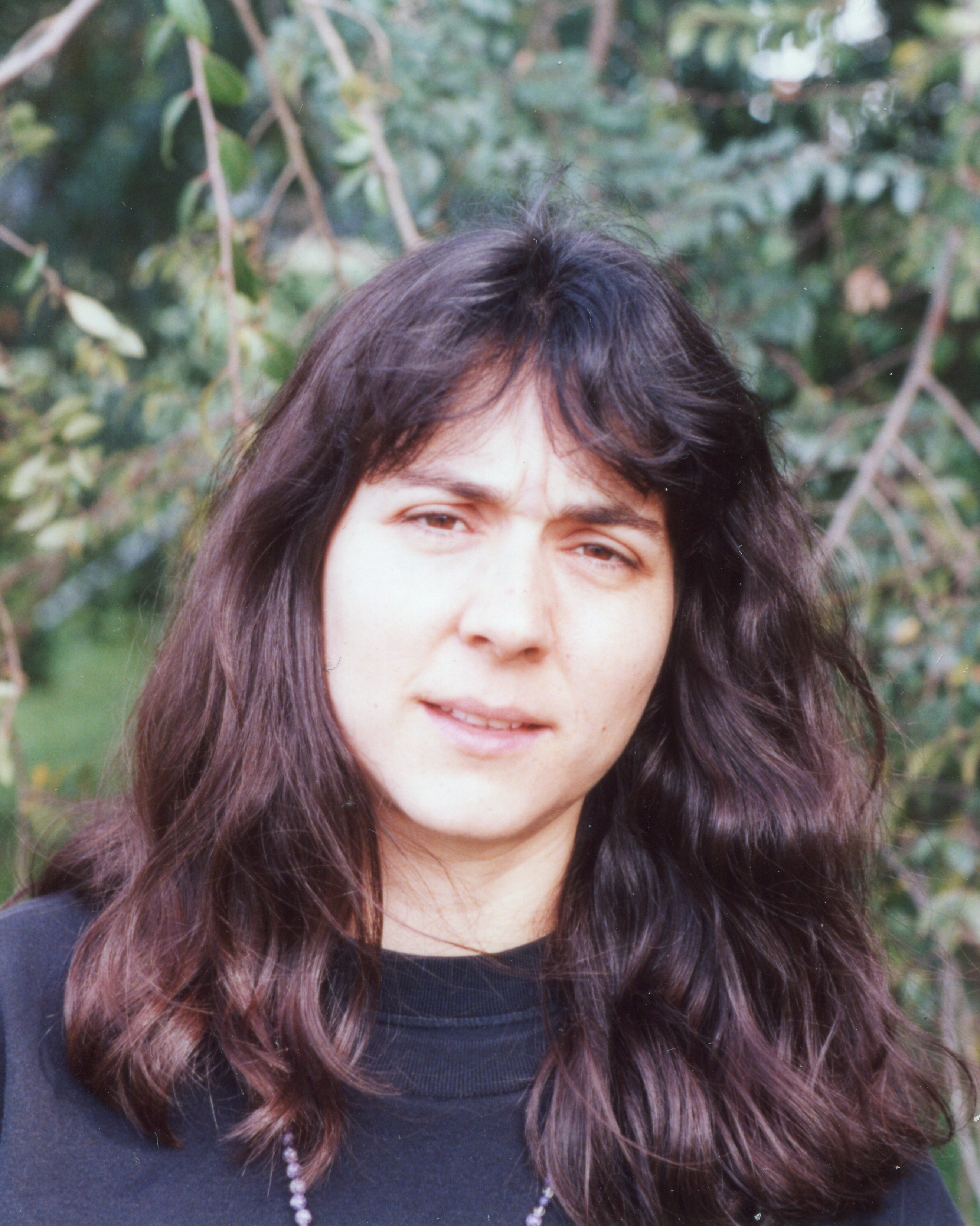 Israeli-Canadian mathematician Yael Karshon at Berkeley, California; re-scanned headshot portion with raised photo resolution